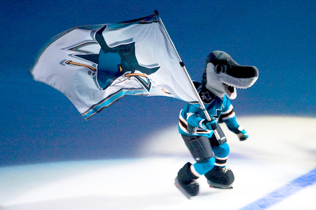 San Jose Sharks vs. Anaheim Ducks Pre-season game 9/21/2007